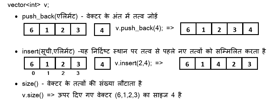 1. push_back(element) 2. insert(position,element) 3. size